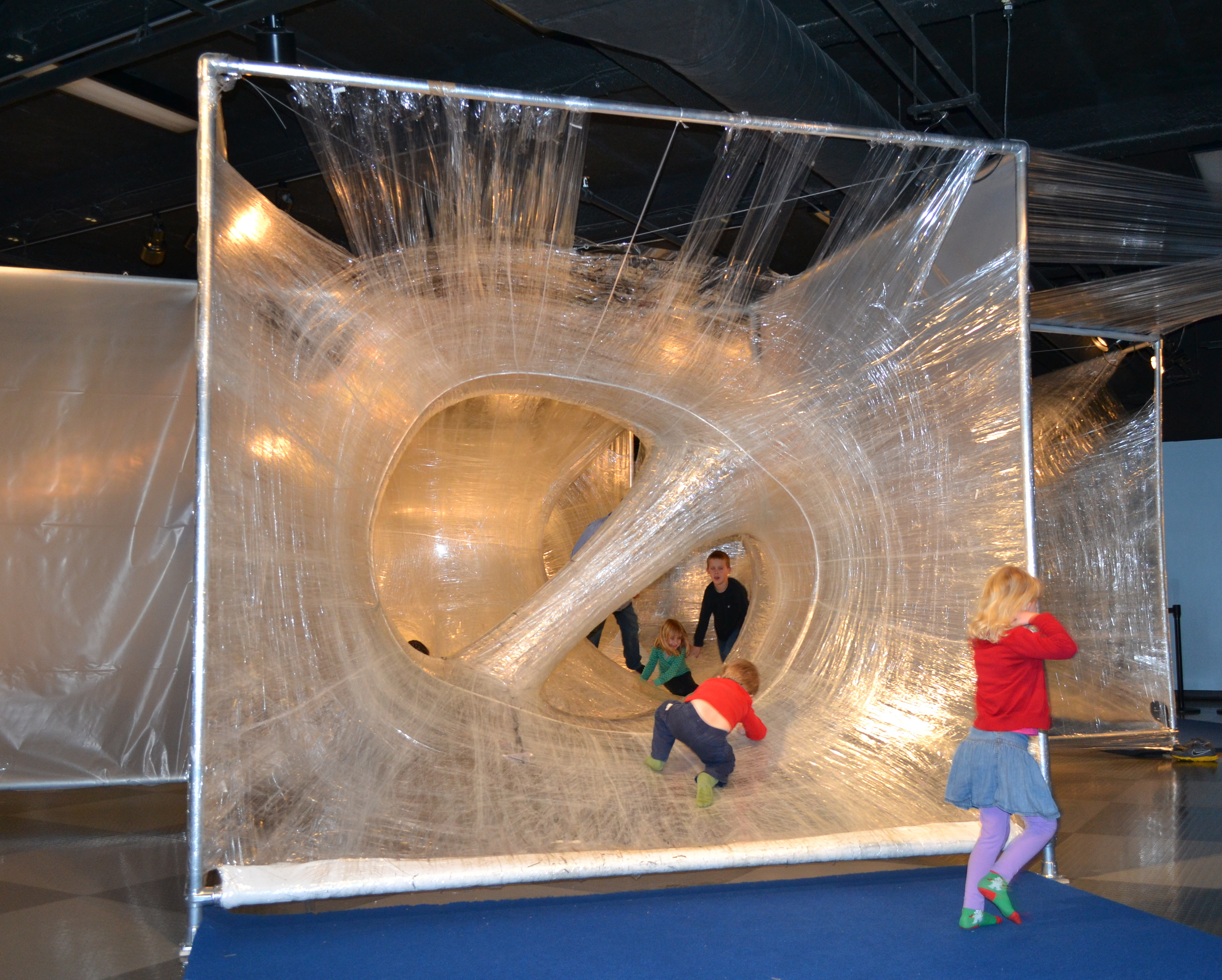 Tape Scape by Eric Lennartson at children's discovery museum in San Jose, California